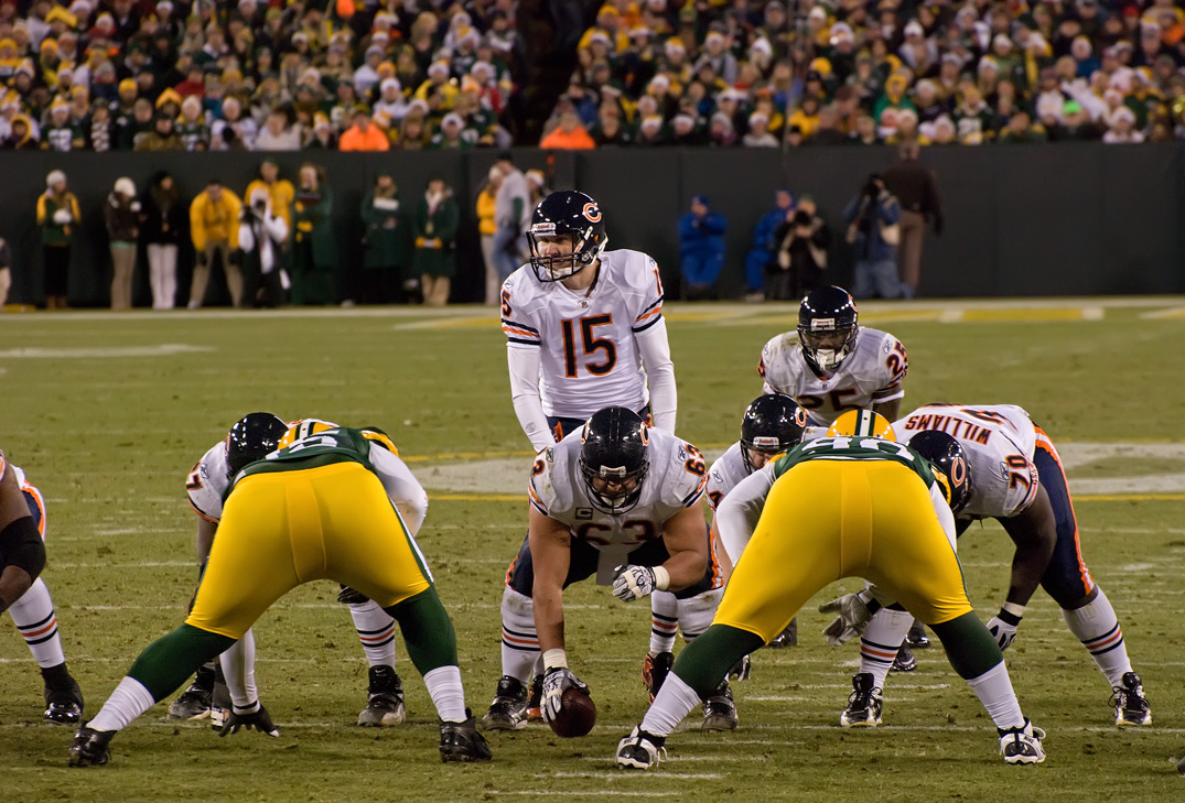 Chicago Bears vs. Green Bay Packers at Lambeau Field on December 25, 2011. Photo by Mike Morbeck.